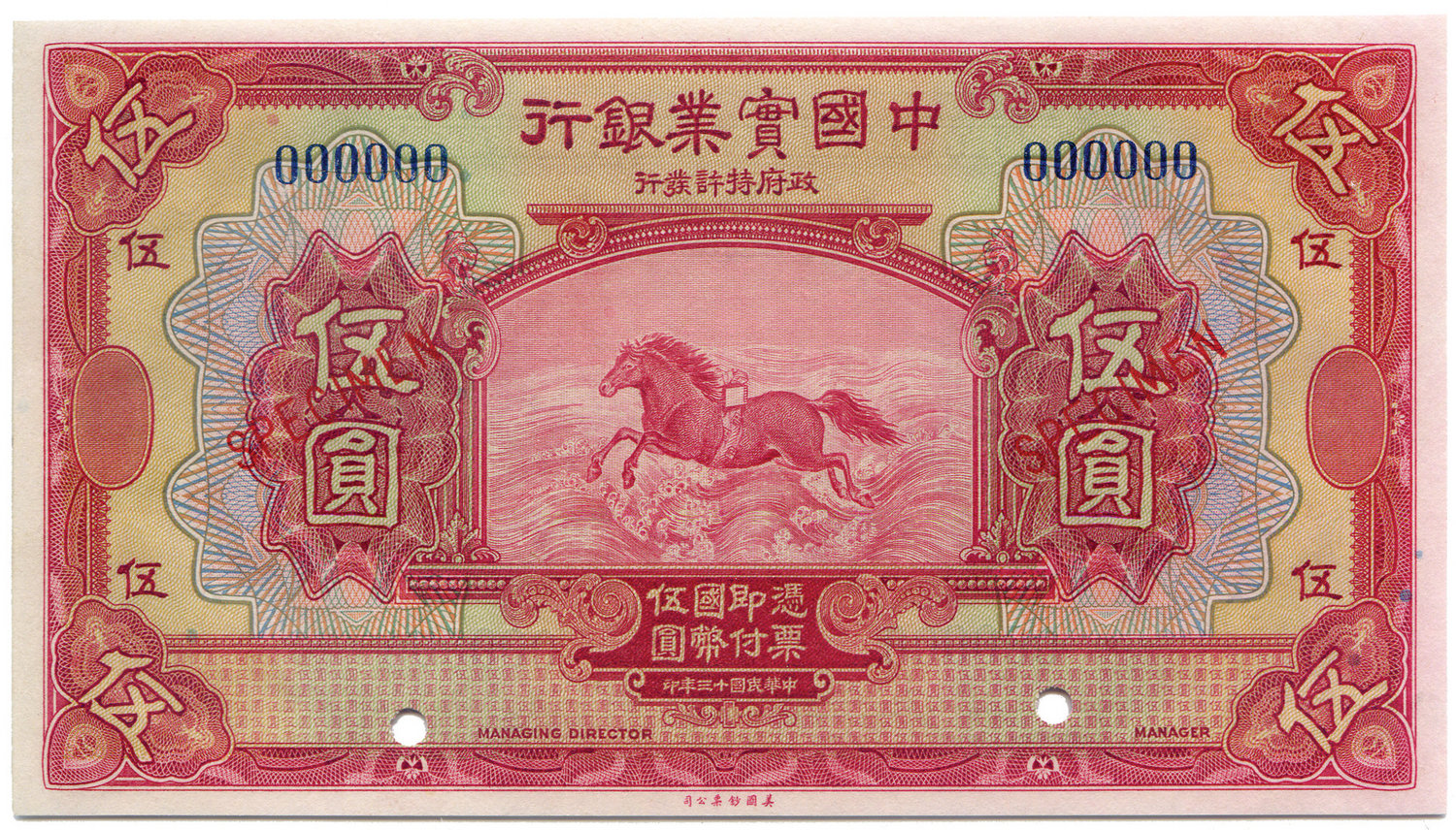 A banknote of the Republic of China from the period when it still administered the Chinese Mainland.